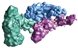 Mediator Structural Model (2015)